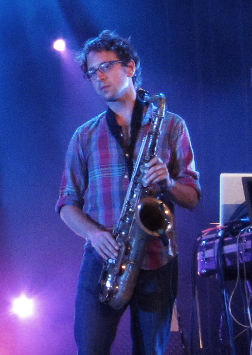 Cropped image of Joseph Shabason playing in the band Destroyer.